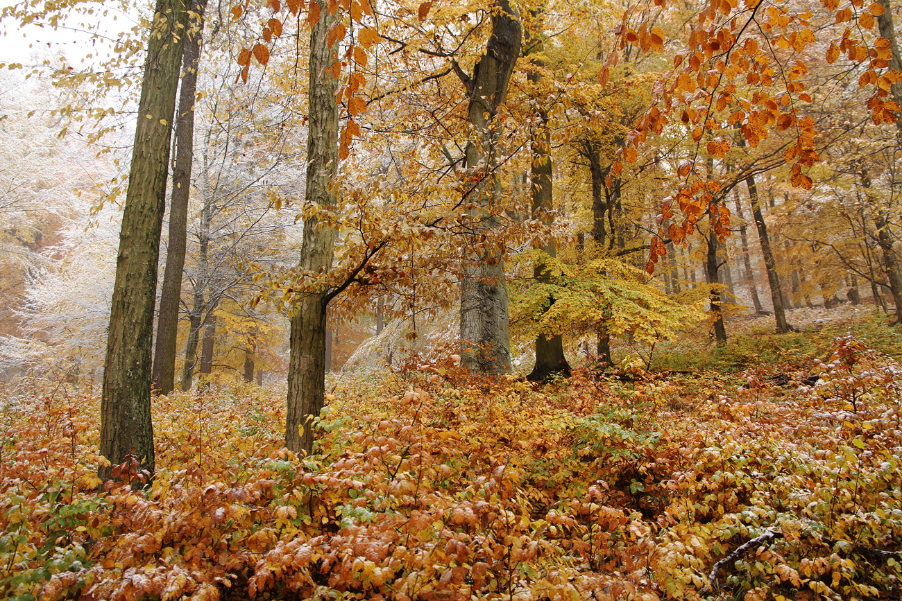 Křivoklátsko - sníh nasněžil na ještě neopadané stromy